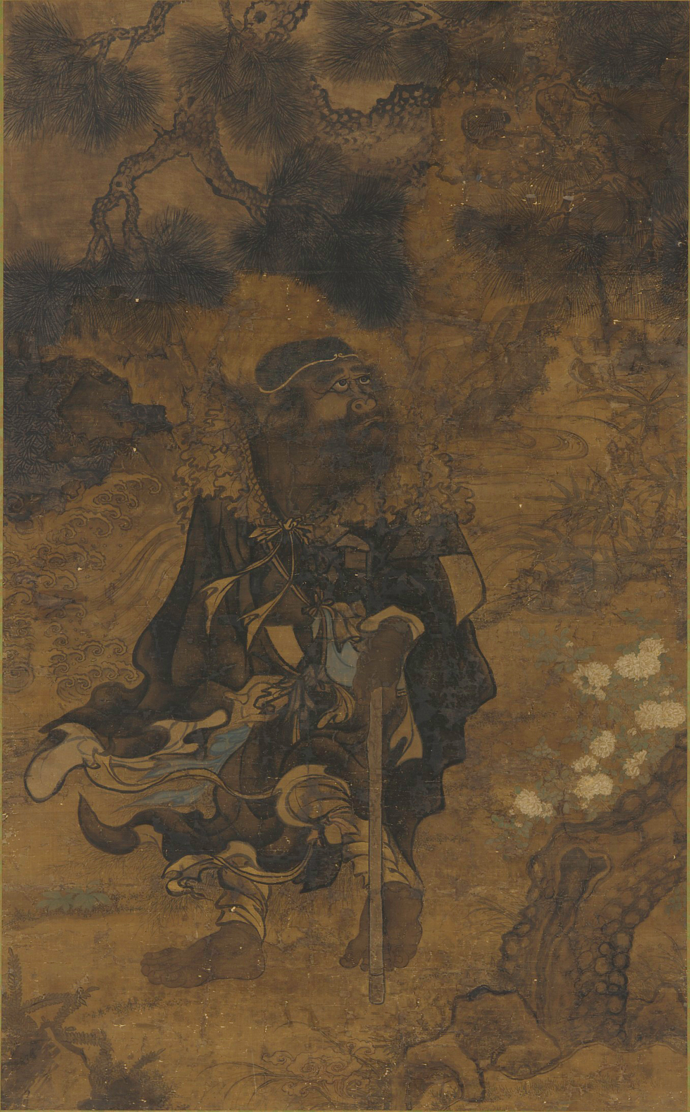 This painting depicts the Daoist immortal Li Tieguai (李鐵拐).